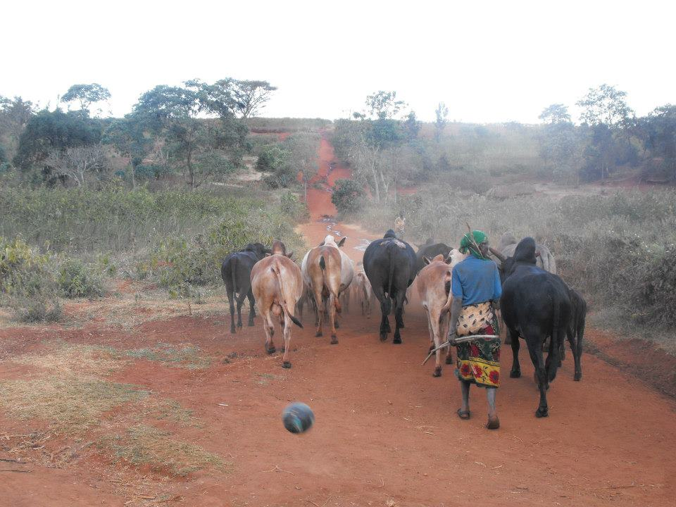 Herders in the Rift Valley, Tanzania This is an image of "African people at work" from Tanzania